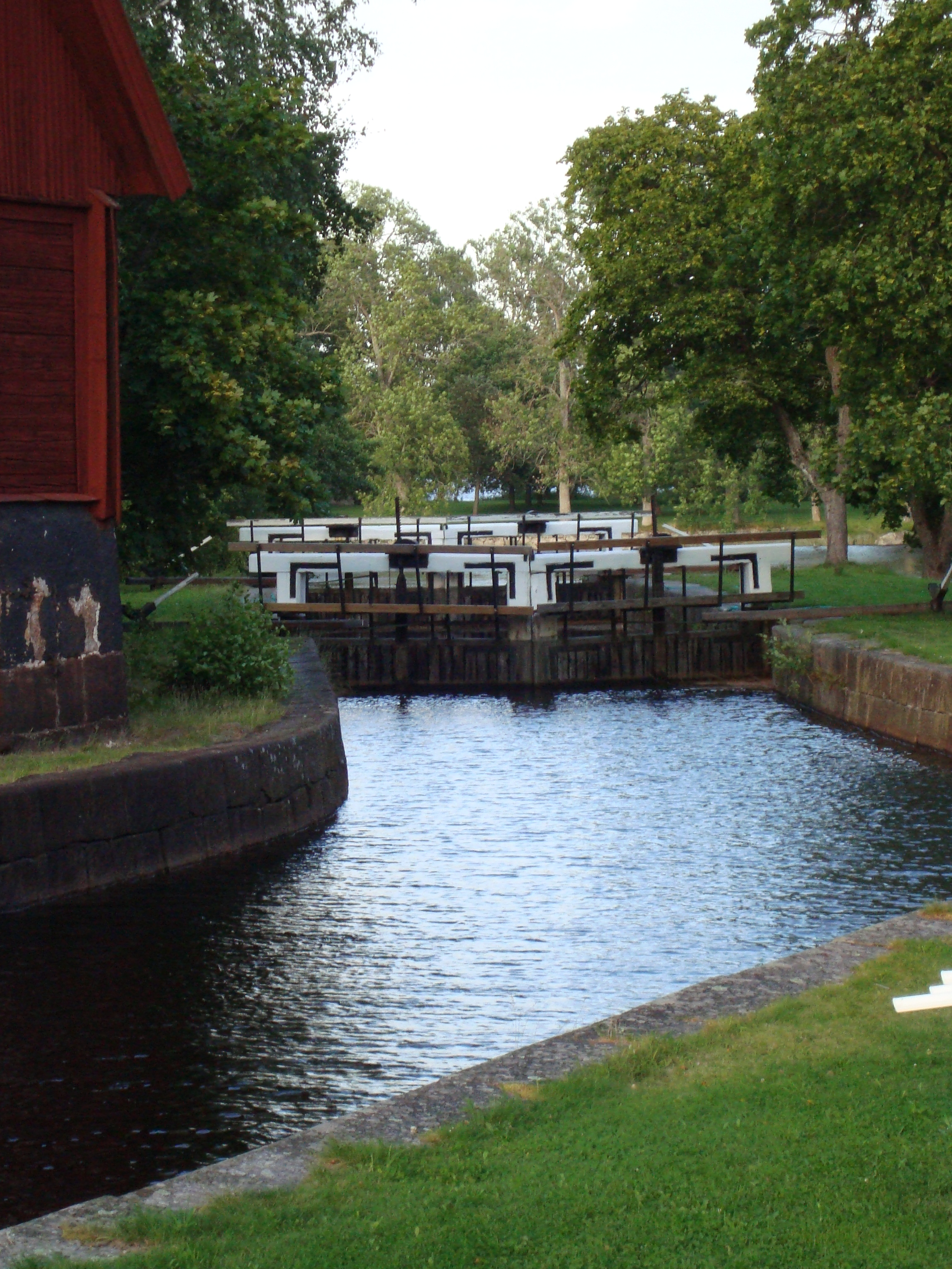 Locks between lake Åmänningen and lake Virsbosjön, Virsbo, Surahammar Municipality, Sweden